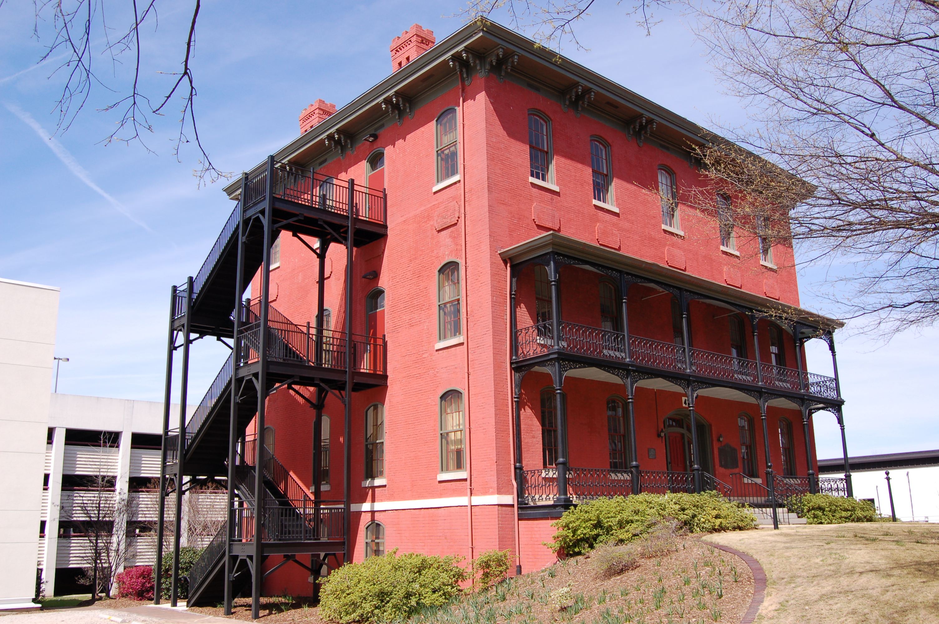 Raleigh and Gaston - Seaboard Coast Line Building in downtown Raleigh, North Carolina.